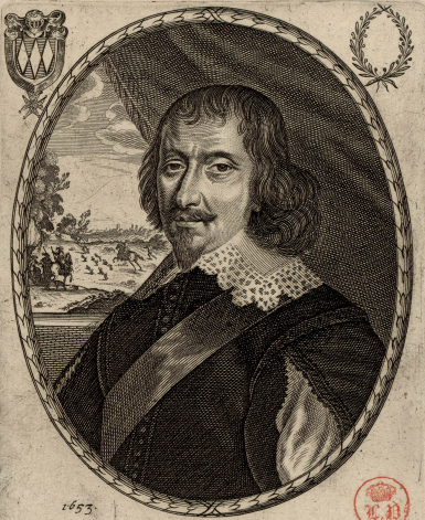 Portrait of Claude Bouthillier, Foreign minister of France